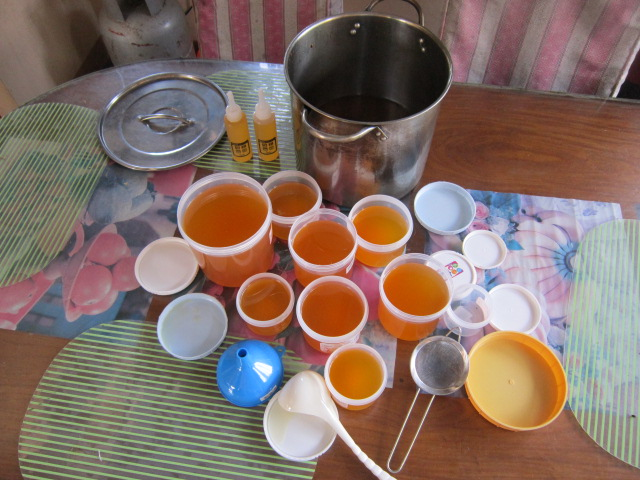 Coconut healing oil from from fresh mature coconuts grated and the coconut milk extracted.